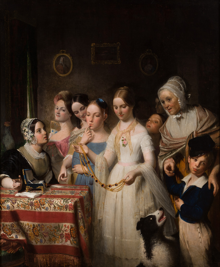 The Present by William Edward West, 1833, oil on canvas, 38 1/8 × 31¾ in. (96.8 × 80.6 cm.), Speed Art Museum